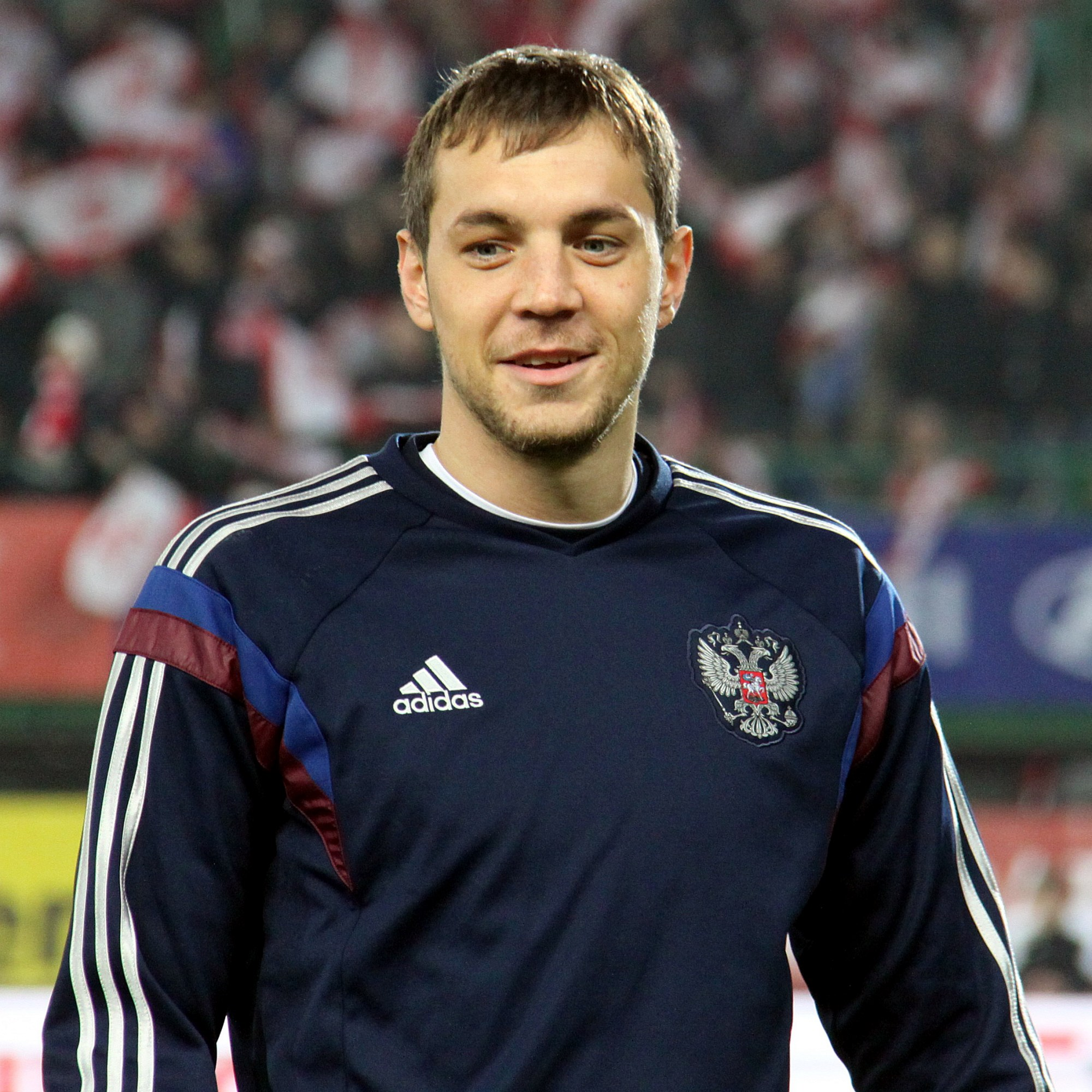 UEFA Euro 2016 qualifying: Austria vs. Russia (1:0 / 0:0) at 2014-11-15 in the Ernst-Happel-Stadion in Vienna. – The photo shows Artem Dzyuba (Russia).